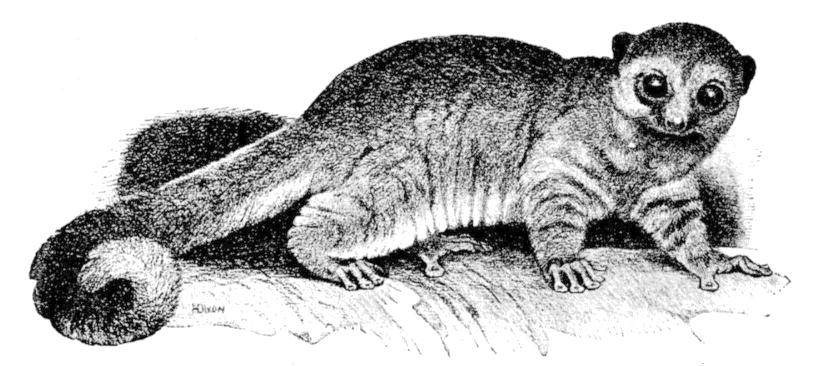 Fig. 261.—Mouse Lemur. Chirogale coquereli. × ½. Now referred to genus Mirza.